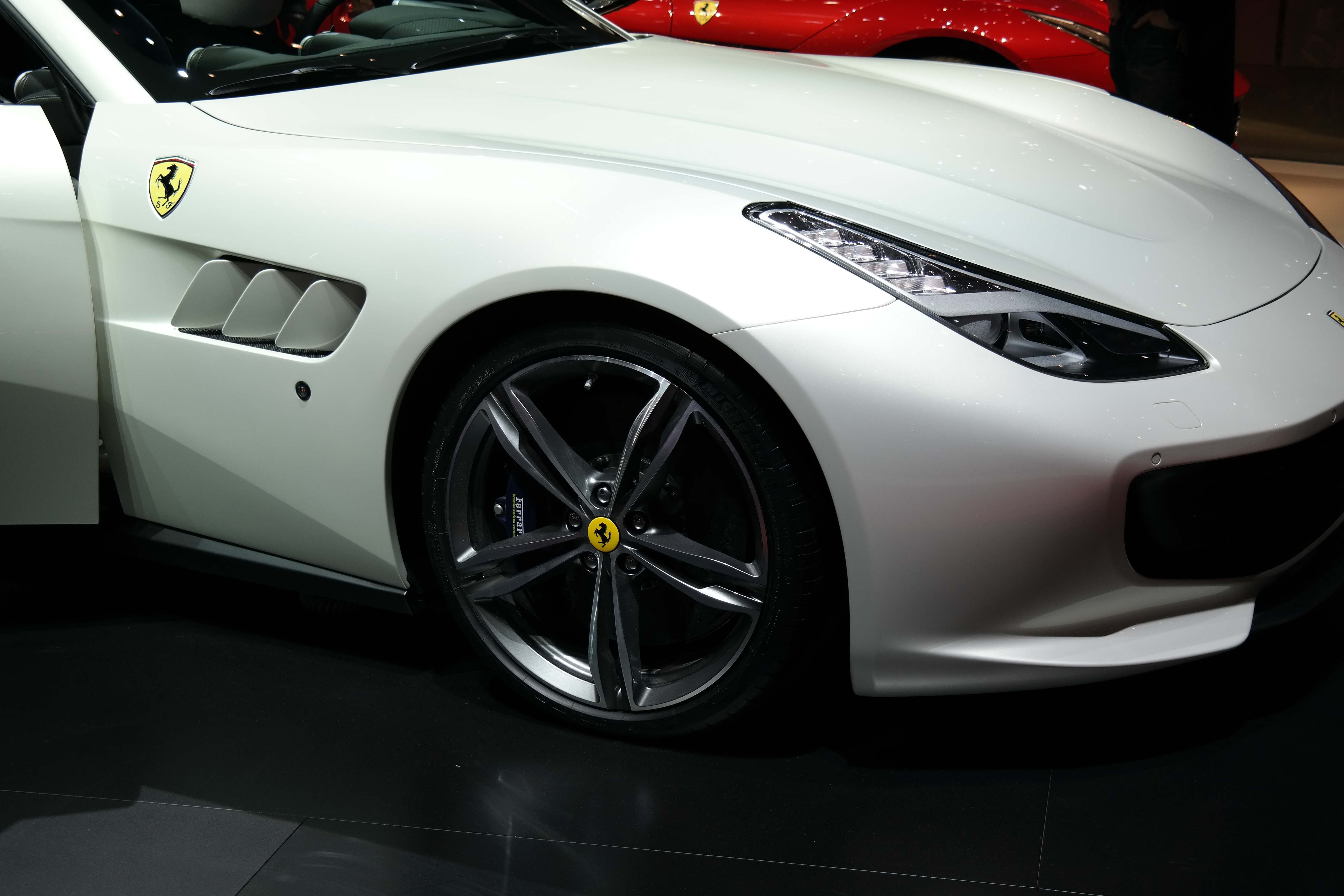 Geneva Motor Show 2016 (photo taken on the first press day)